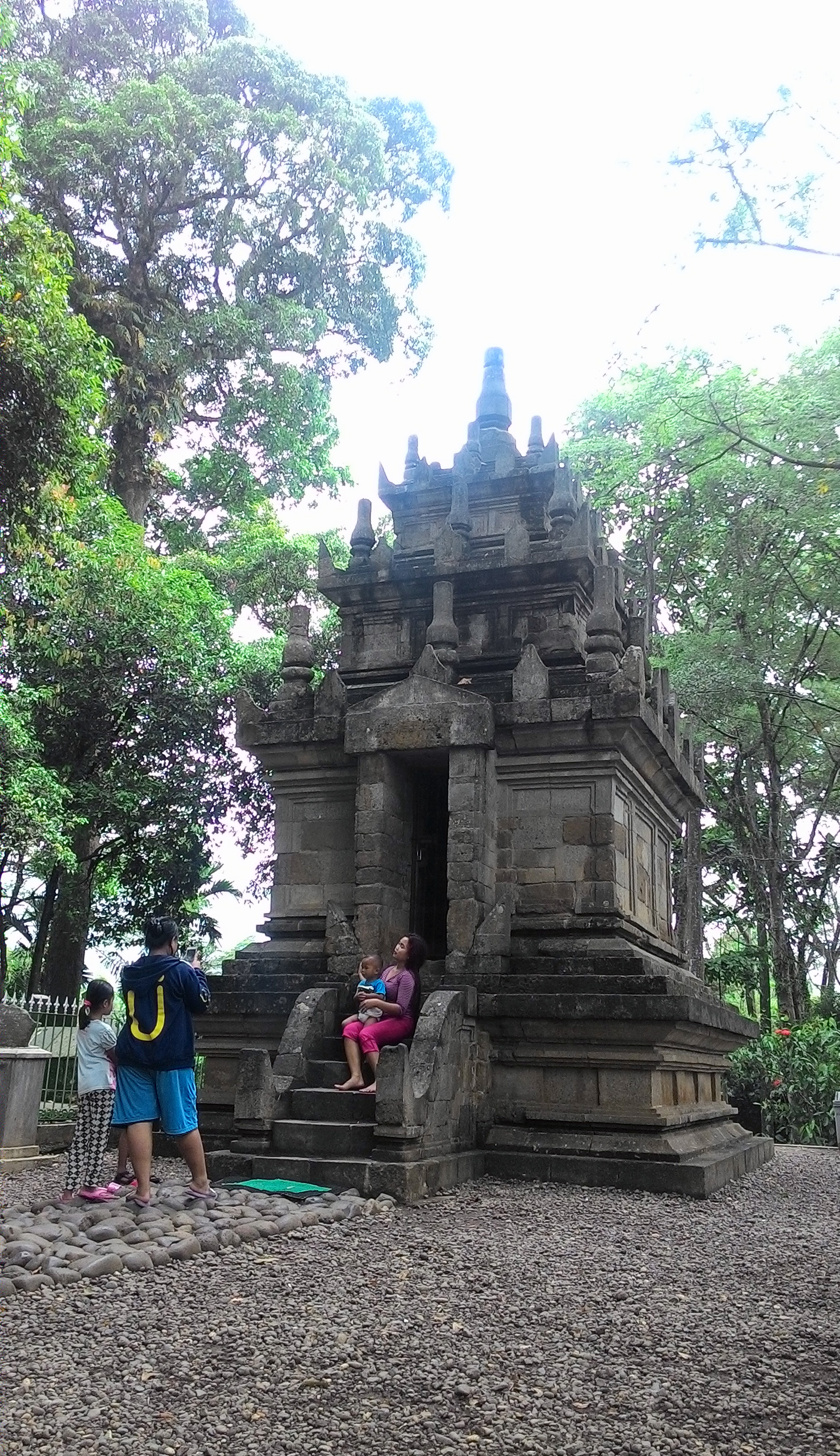 Candi Cangkuang, 8th century Shivaist Hindu temple, located in Leles, Garut Regency, West Java, Indonesia.